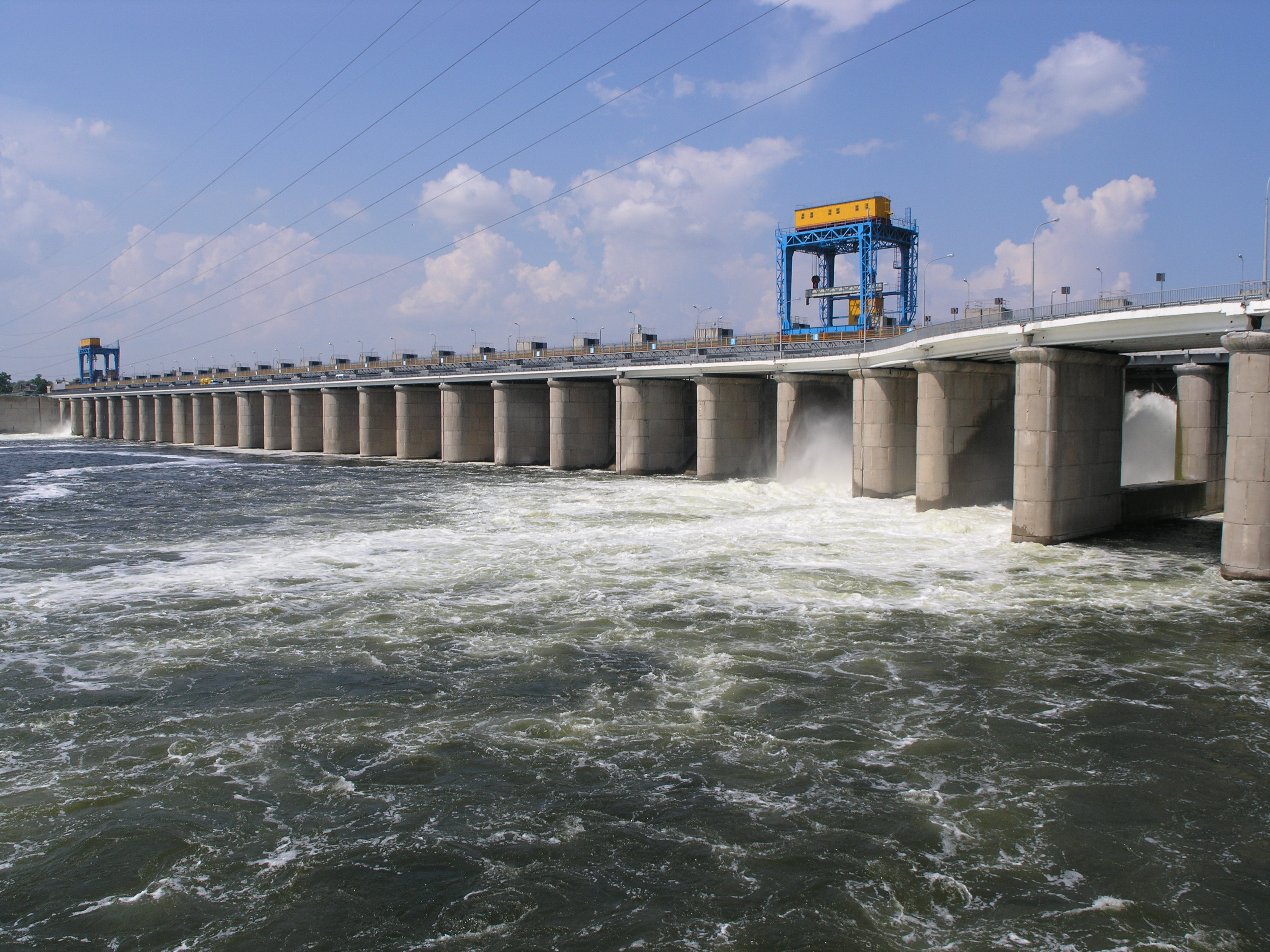 Kakhovka hydroelectric station, Nova Kakhovka, Kherson Oblast, Ukraine